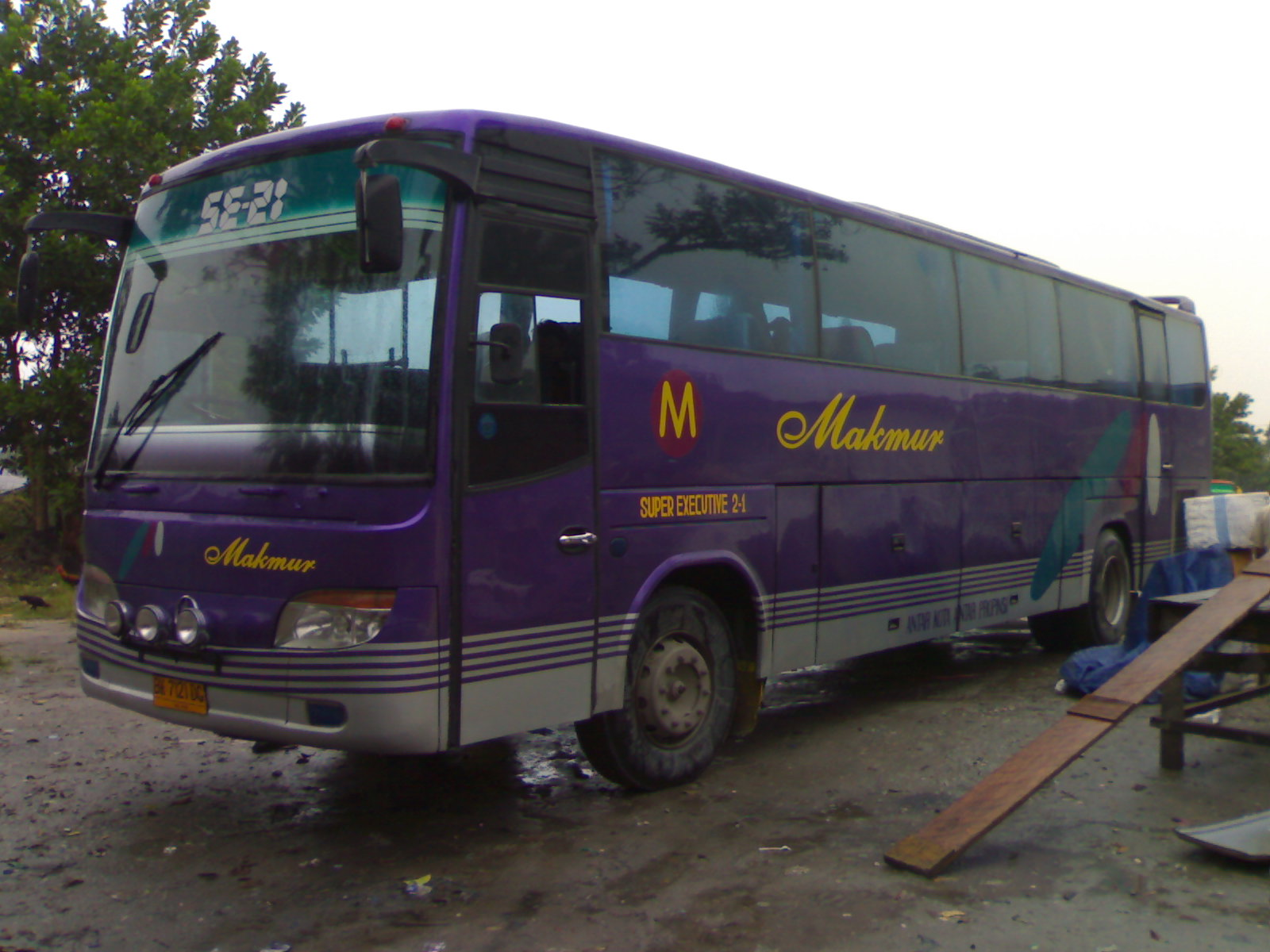 a coach route Medan-Pekanbaru owned by CV. Makmur